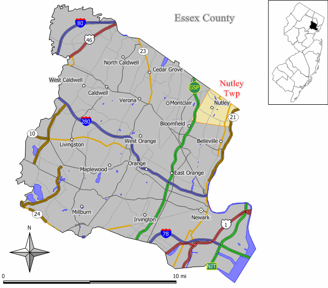 Source: Jim Irwin Original work by Jim Irwin, December 2005.